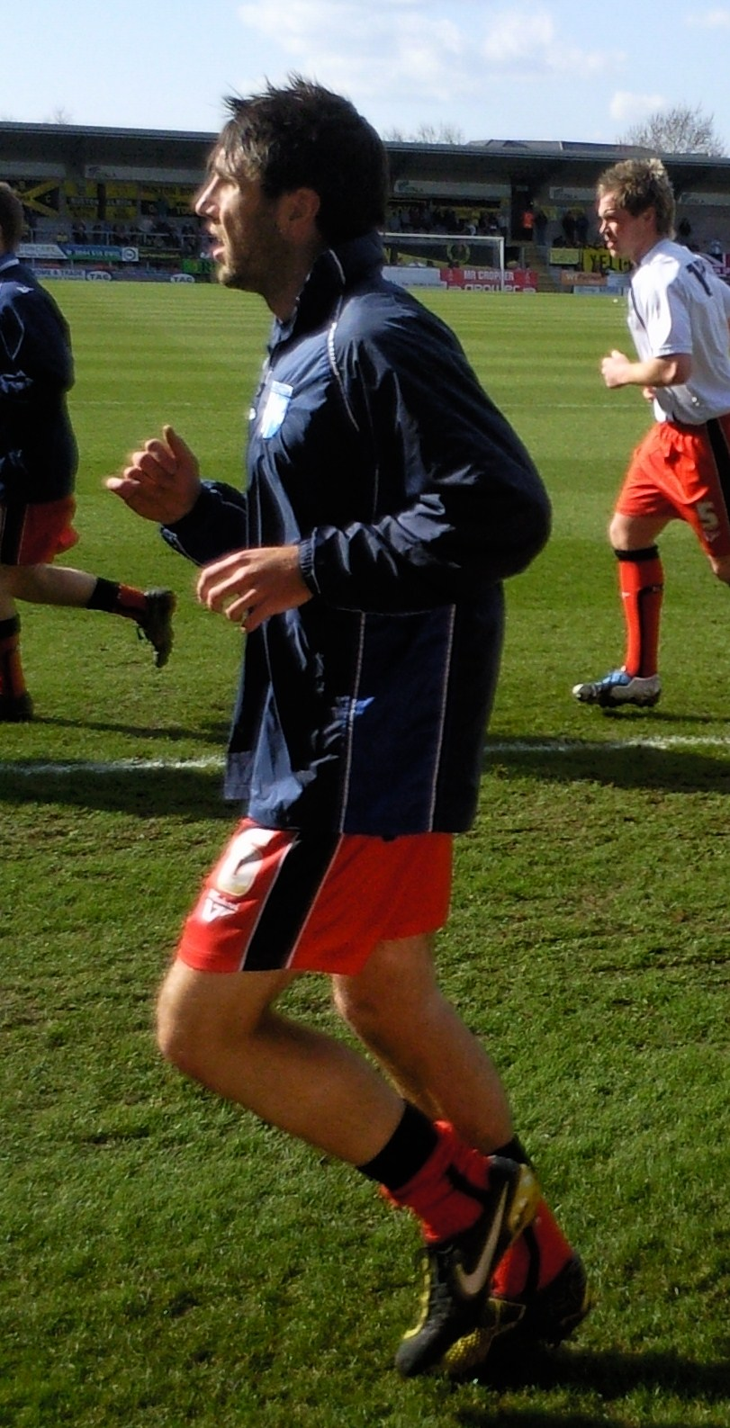 Garry Richards photographed on 19/3/11. I took the picture myself.